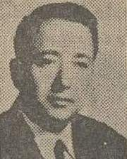 Ettela'at newspaper, No.14739, dated Tir 1, 1354 (22 June 1975), page 4.